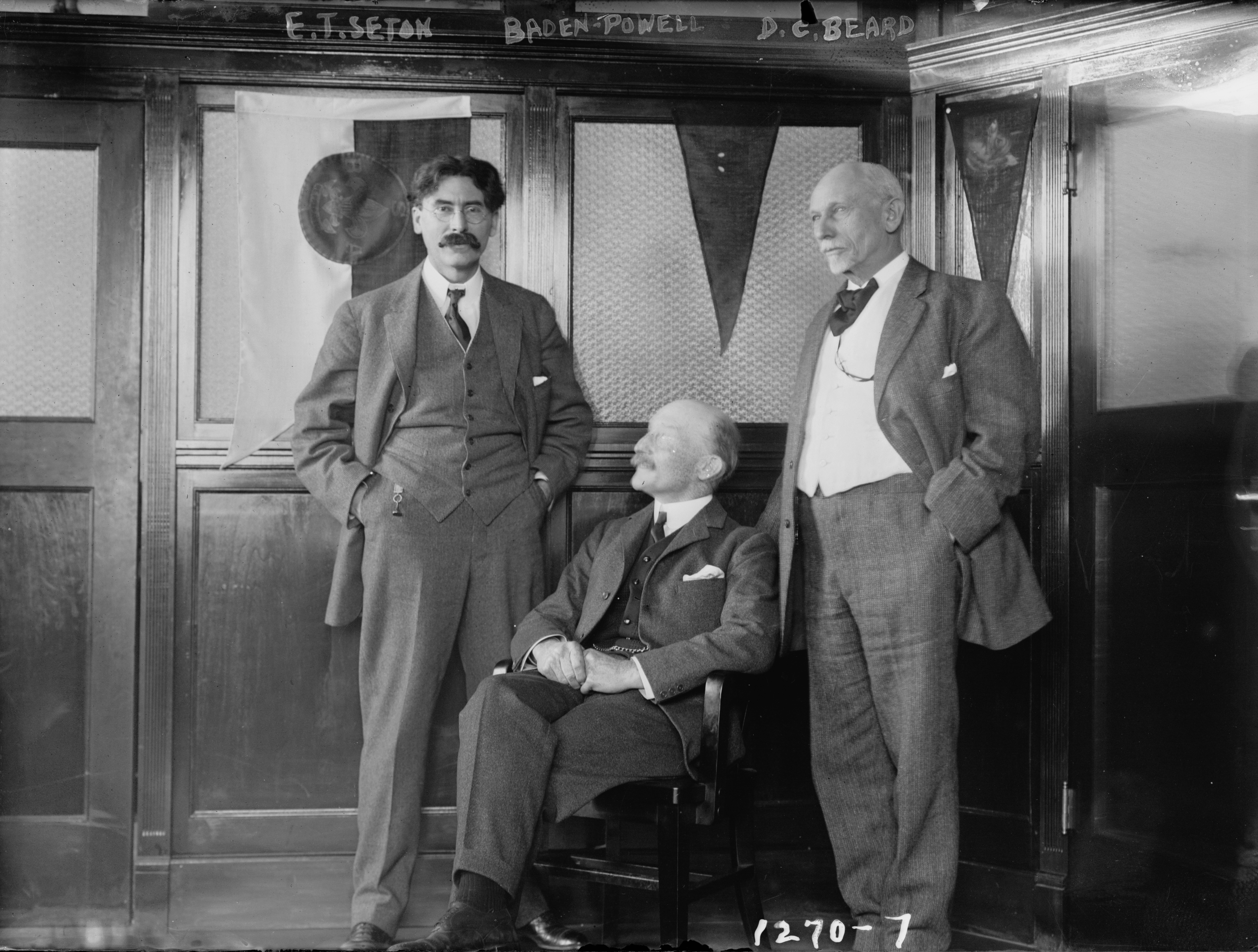 Three early 20th century leaders of the Scouting movement (l-to-r): Ernest Thompson Seton, Robert Baden-Powell, and Dan Beard.